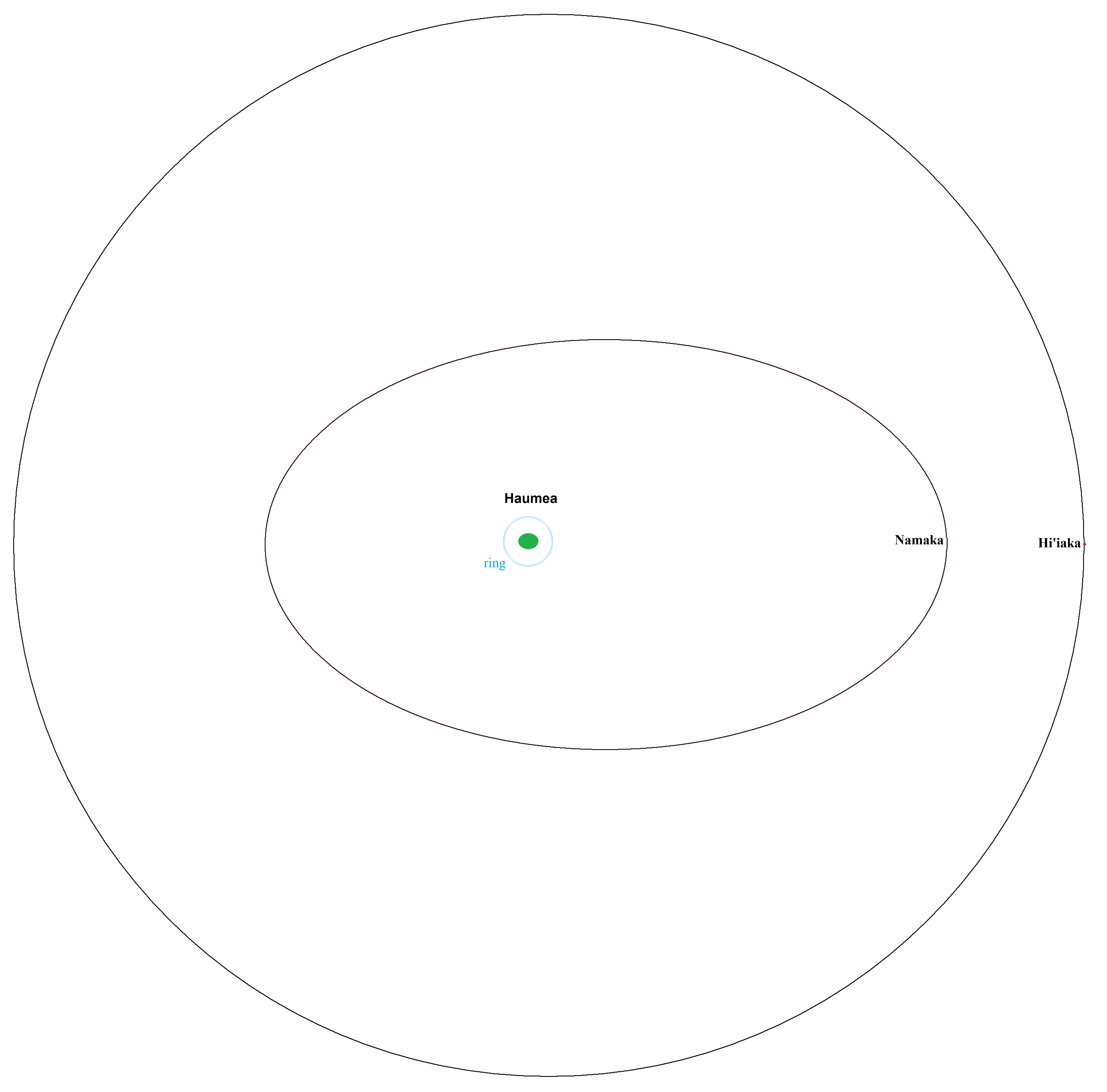 Haumea, ring and 2 moons with proper scaling